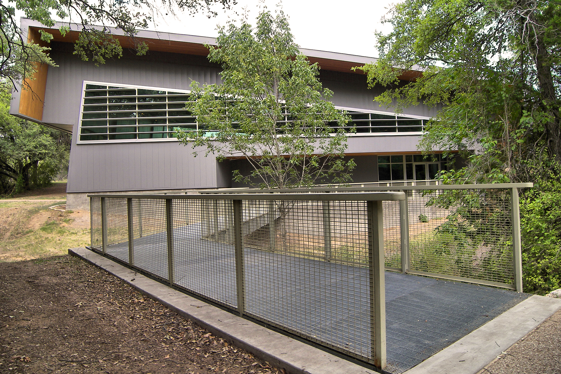 Main building at the Waco Mammoth National Monument. The building protects the exposed remains of the mammoth bones.